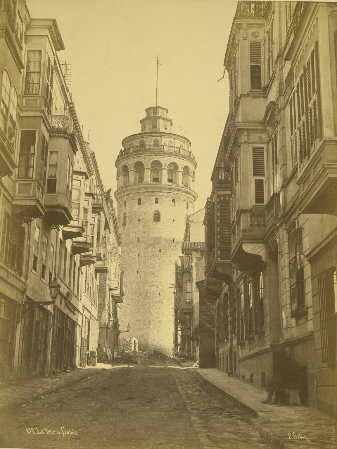 Collection: A. D. White Architectural Photographs, Cornell University Library Accession Number: 15/5/3090.00055 Title: Galata Tower Photographer: Pascal Sébah (1823–1886, Ottoman Empire, active 1857–1886) Building date: 1348 Building style: Romanesque (Genoese) Photograph date: ca. 1875–1886 (Note: The previous conical roof of Galata Tower was destroyed by a storm in 1875, and the photographer Pascal Sébah died in 1886. The current conical roof of Galata Tower was built during the restoration works between 1965 and 1967.) Location: Istanbul, Turkey Materials: albumen print Image: 13.75 x 10.5 in.; 34.925 x 26.67 cm Provenance: Transfer from the College of Architecture, Art and Planning Persistent URI: Cornell University Library There are no known U.S. copyright restrictions on this image. The digital file is owned by the Cornell University Library which is making it freely available with the request that, when possible, the Library be credited as its source. We had some help with the geocoding from Web Services by Yahoo!